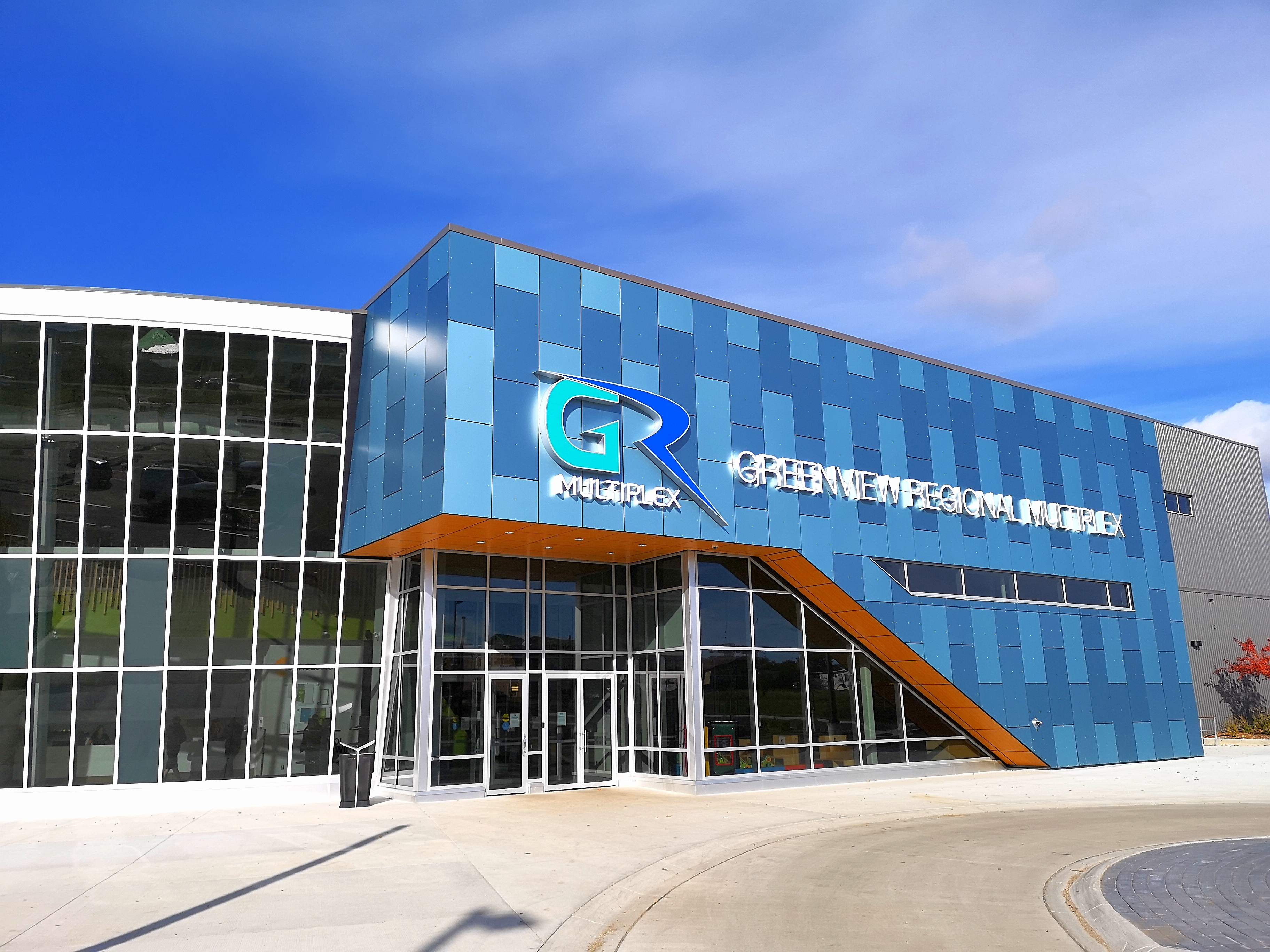 Greenview Regional Multiplex a sports recreation facility located in Valleyview, Alberta. Opened in 2018, built as a partnership between the Town of Valleyview and the Municipal District of Greenview.